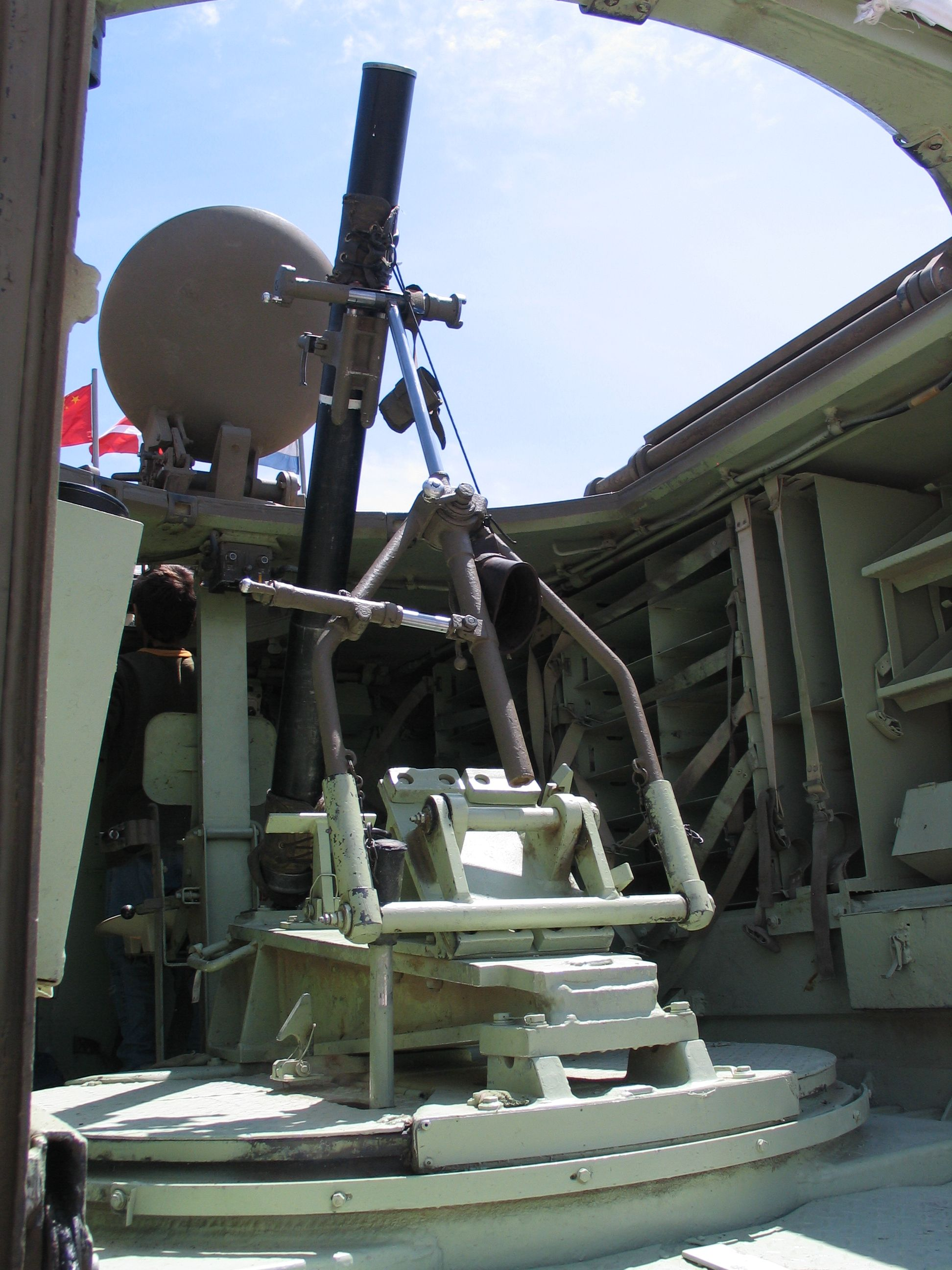 M113-based mortar carrier, demonstrated at Israel's 60th Independence Day exhibition in Yad la-Shiryon Museum, Israel.